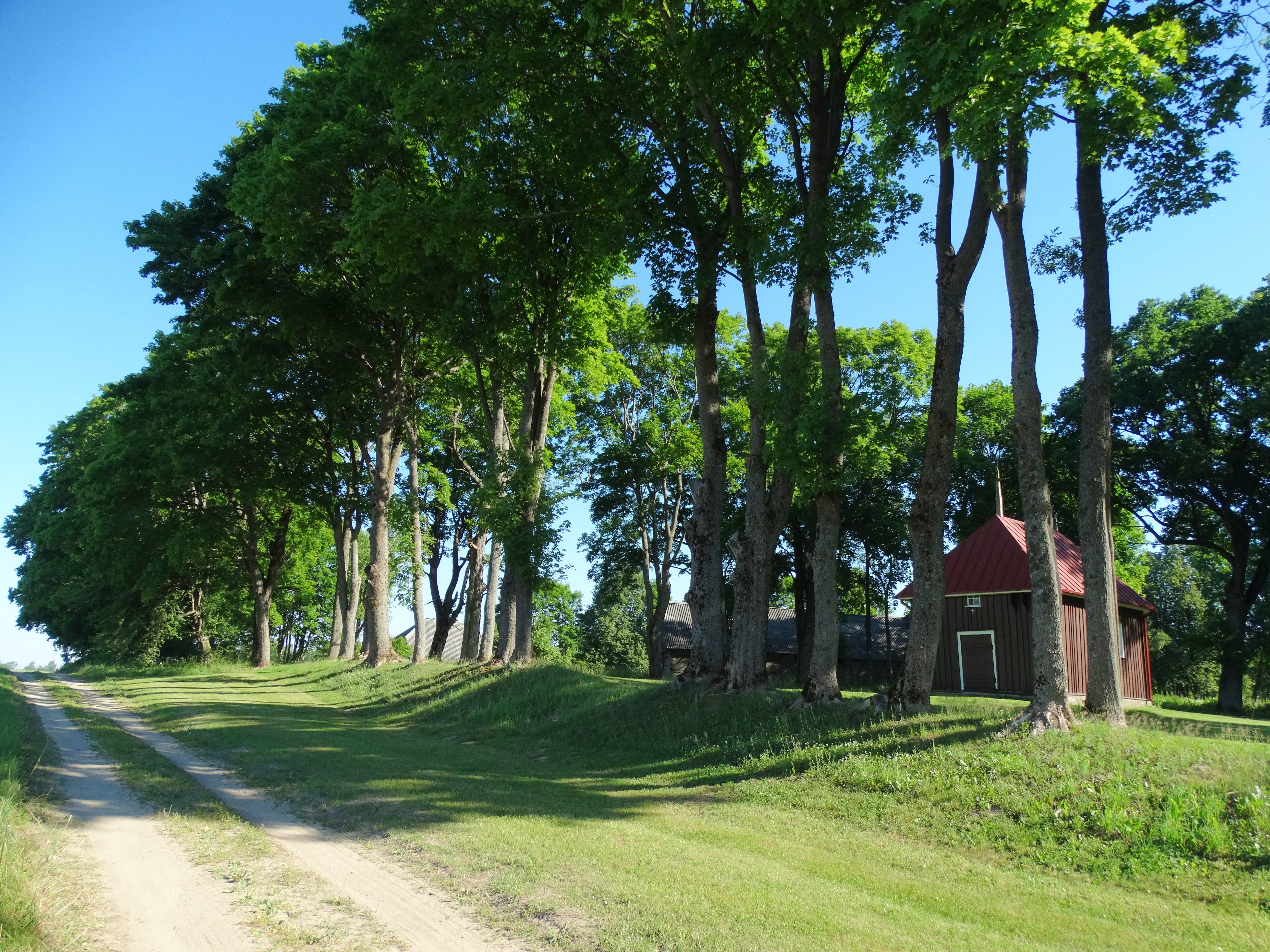 Paežeris chapel, Raseiniai District, Lithuania